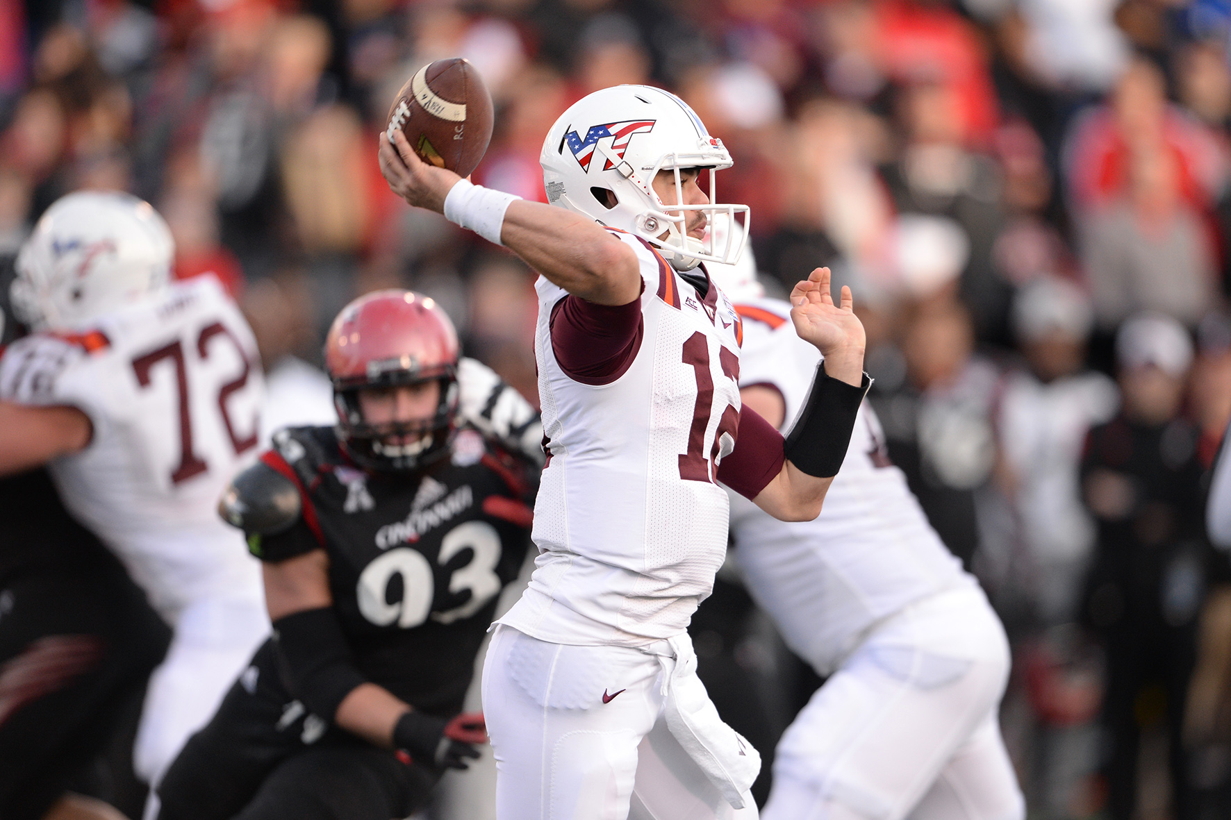 Virginia Tech quarterback Michael Brewer passes the ball during the fourth quarter of the Military Bowl 2014 at Navy-Marine Corps Memorial Stadium in Annapolis, Md. Dec. 27, 2014. Virginia Tech beat Cincinnati 33-17. (DoD News photo by EJ Hersom)